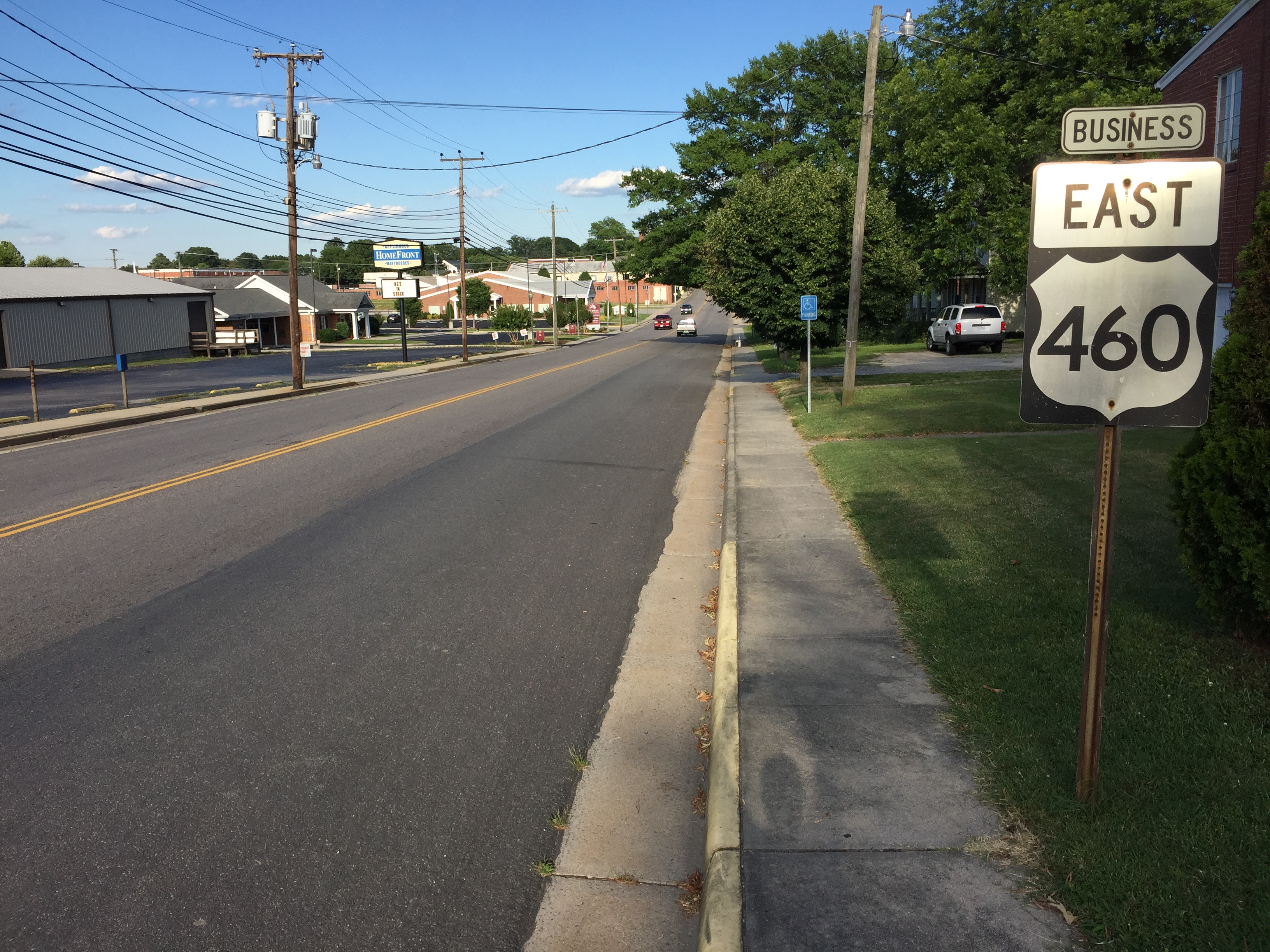 View east along U.S. Route 460 Business (Church Street) at Brunswick Avenue in Blackstone, Nottoway County, Virginia